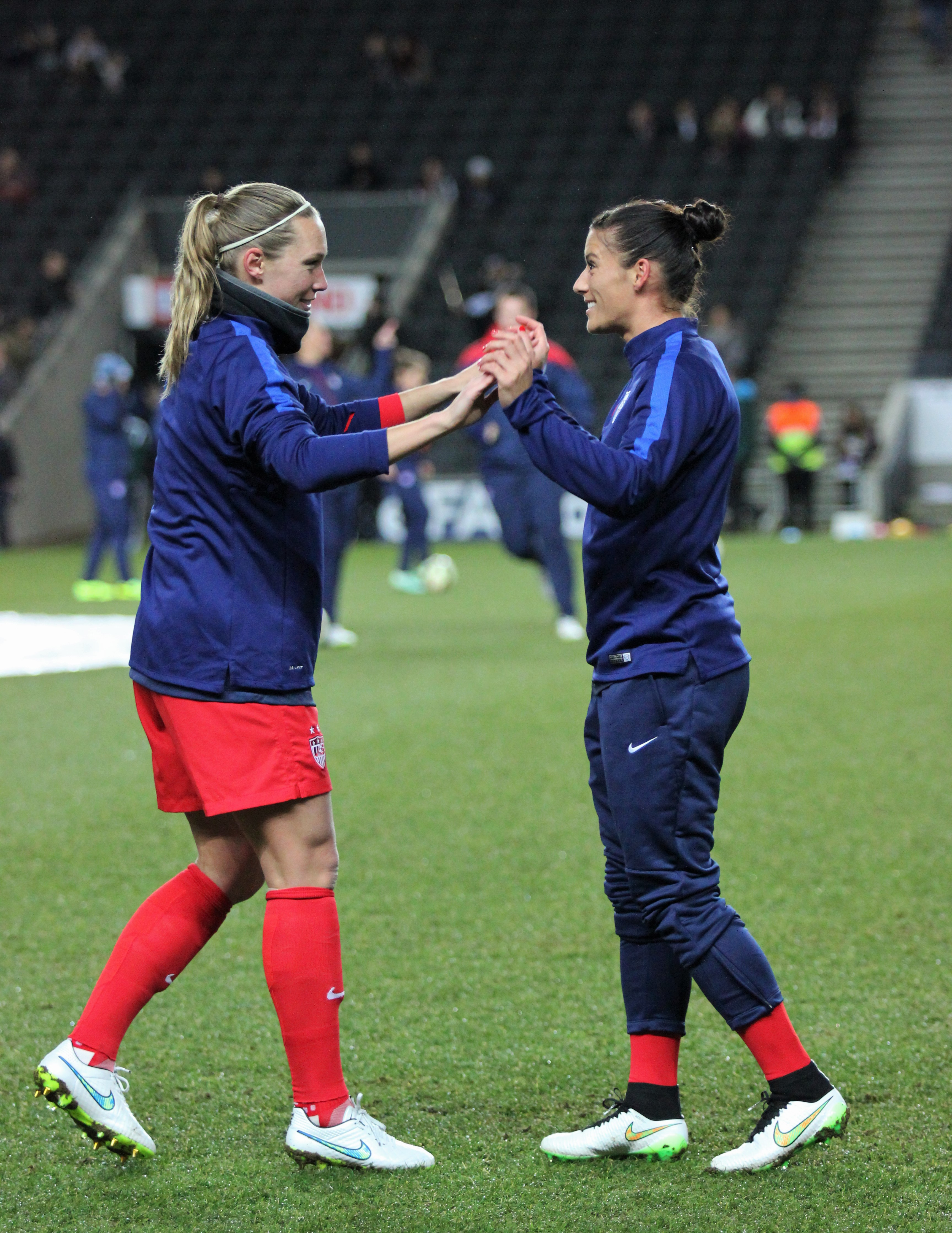 Ali Krieger and Whitney Engen of USA Women's warm up before the game against England.